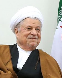 Ayatollah Khamenei meeting with members of the Iran's Assembly of Experts after their final meeting in the fourth term